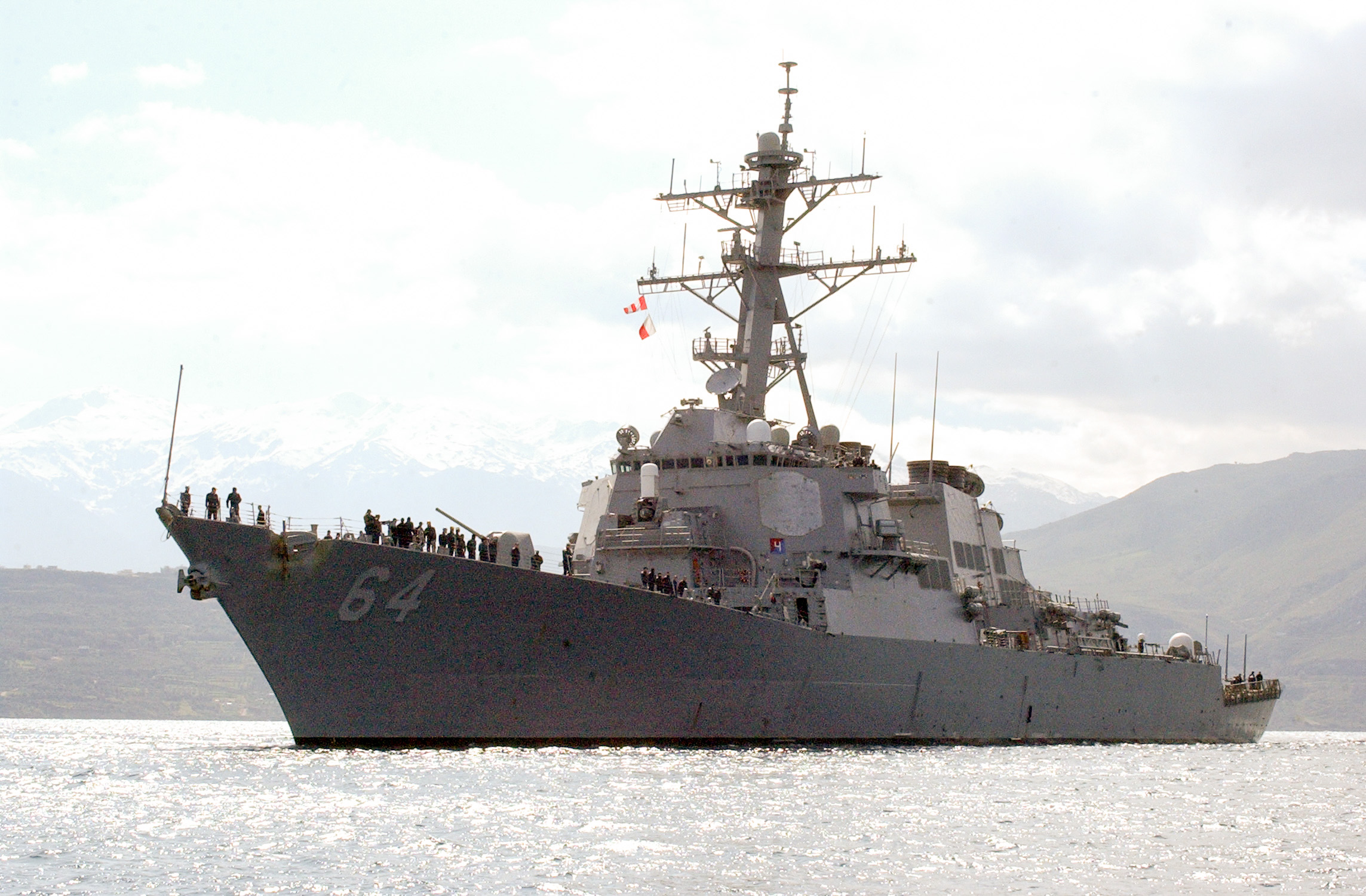 Souda Bay, Crete, Greece (Mar. 3, 2005) - The guided missile destroyer USS Carney (DDG 64) approaches the Marathi NATO pier facility in Souda Bay for a scheduled port visit. Assigned to Destroyer Squadron Two Four, Carney is homeported in Mayport, Fla., and is currently on a routine deployment. U.S. Navy photo by Paul Farley (RELEASED)